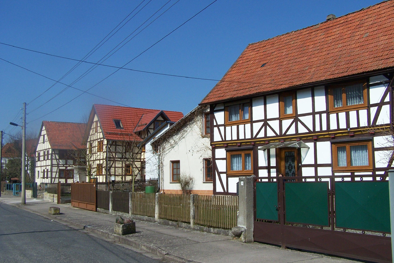 Some typical buildings in Ebenshausen.